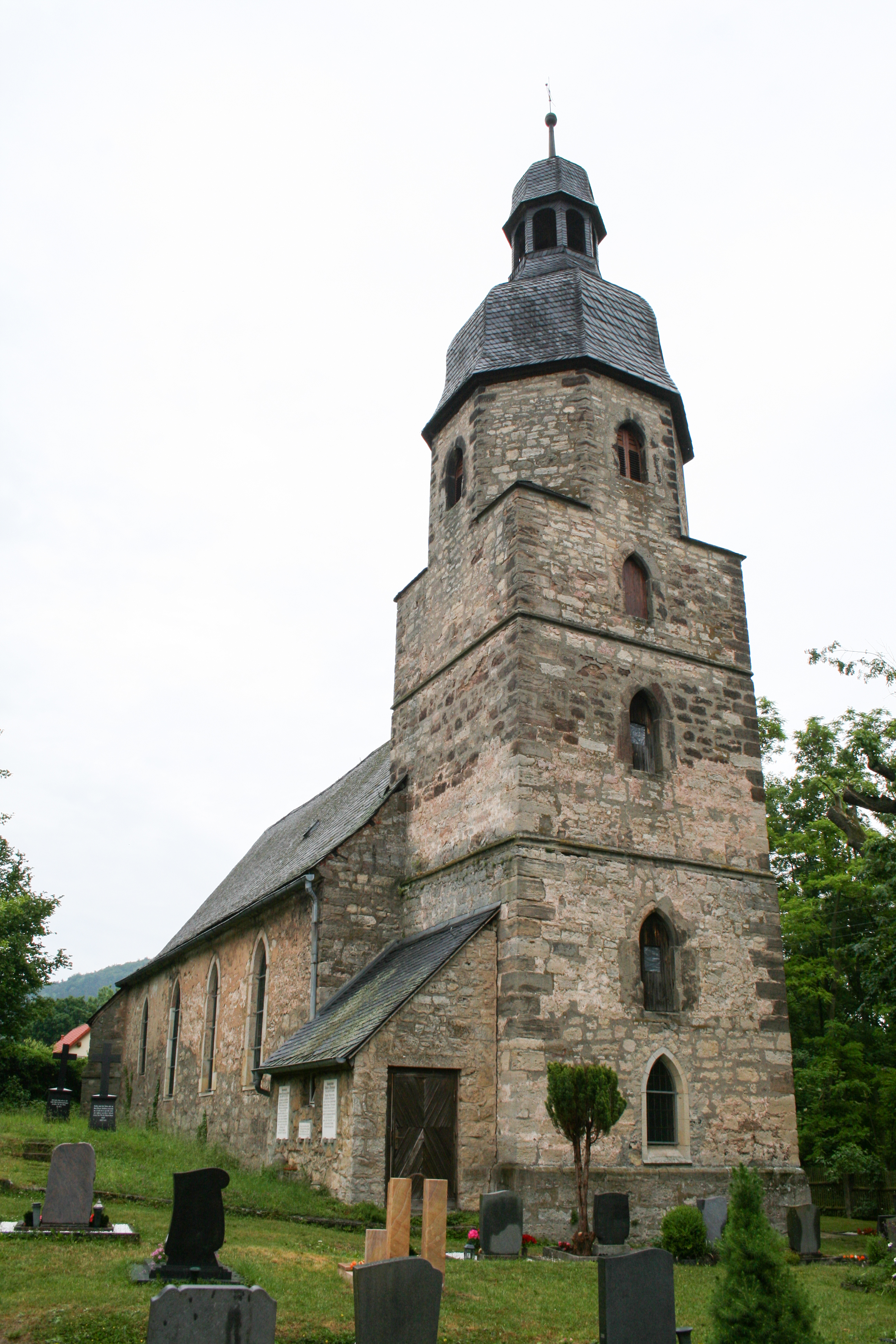 Church in Drackendorf, Jena, Germany